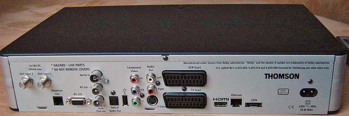 Backpanel of the Sky HD receiver.